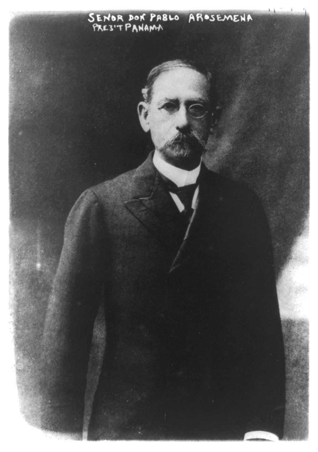 TITLE: [Pablo Arosemena, acting President of Panama, half-length portrait, facing right] CALL NUMBER: BIOG FILE [item] [P&P] REPRODUCTION NUMBER: LC-USZ62-46725 (b&w film copy neg.) No known restrictions on publication. MEDIUM: 1 photographic print. CREATED/PUBLISHED: [1910] NOTES: Title and other information transcribed from unverified, old caption card data and item. George Grantham Bain Collection (Library of Congress). REPOSITORY: Library of Congress Prints and Photographs Division Washington, D.C. 20540 USA DIGITAL ID: (digital file from b&w film copy neg.) cph 3a46889 CARD #: 2005687283